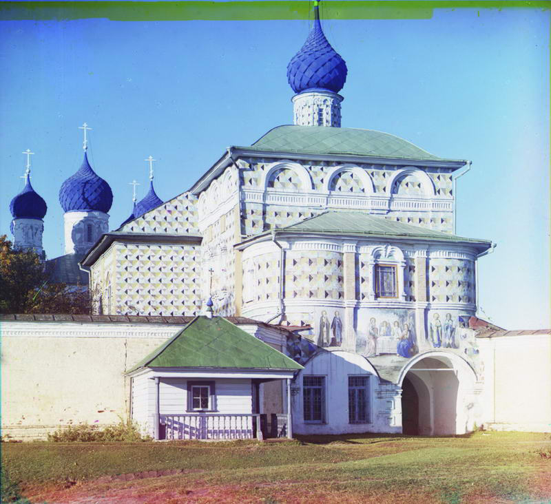 Unzhensky Monastery in Makariev